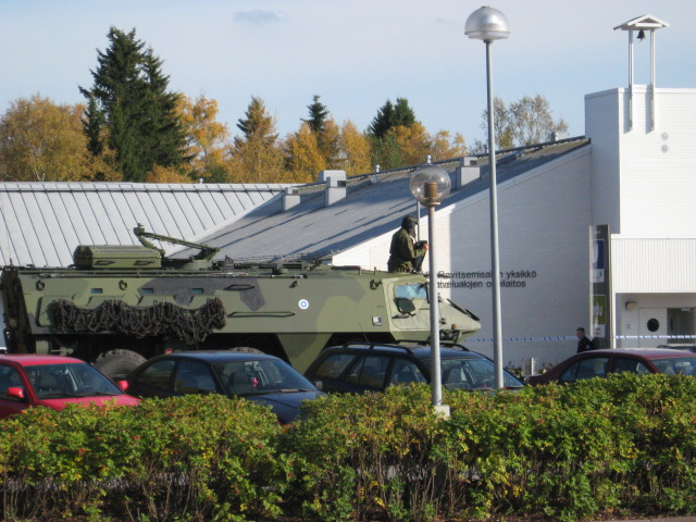 Panssari-Sisu XA-180 in Kauhajoki few hours after Kauhajoki shooting incident. In the background locate Kauhajoen koti- ja laitostalousoppilaitos school.